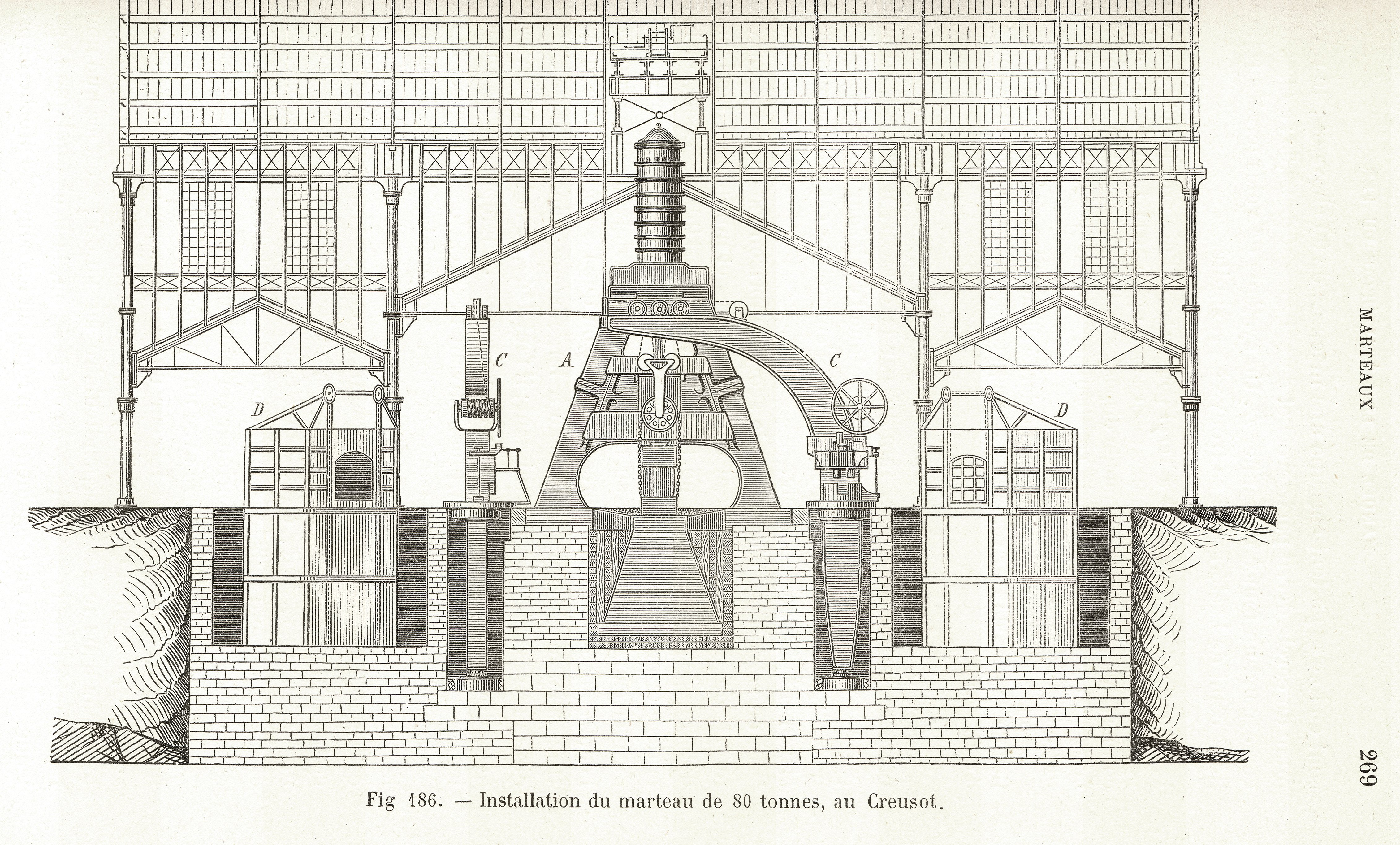 Sledge hammer in Le Creusot. Image scanned in : Manuel de la métallurgie du Fer, Tome 2, par Adolf Ledebur, édition française traduite par Barbary de Langlade revu et annoté par F.Valton, publié par Librairie polytechnique Baudry et Cie, 1895, page 269.